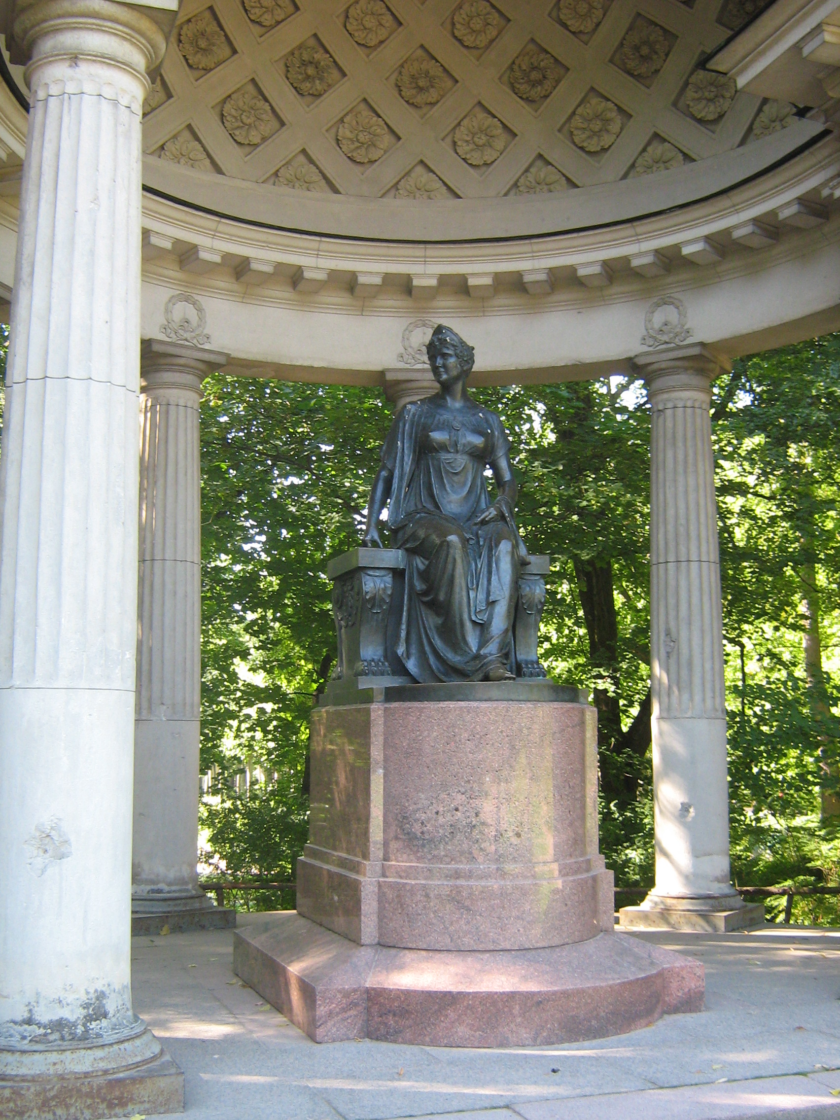 Pavlovsk (Russia), The Rossi Pavilion